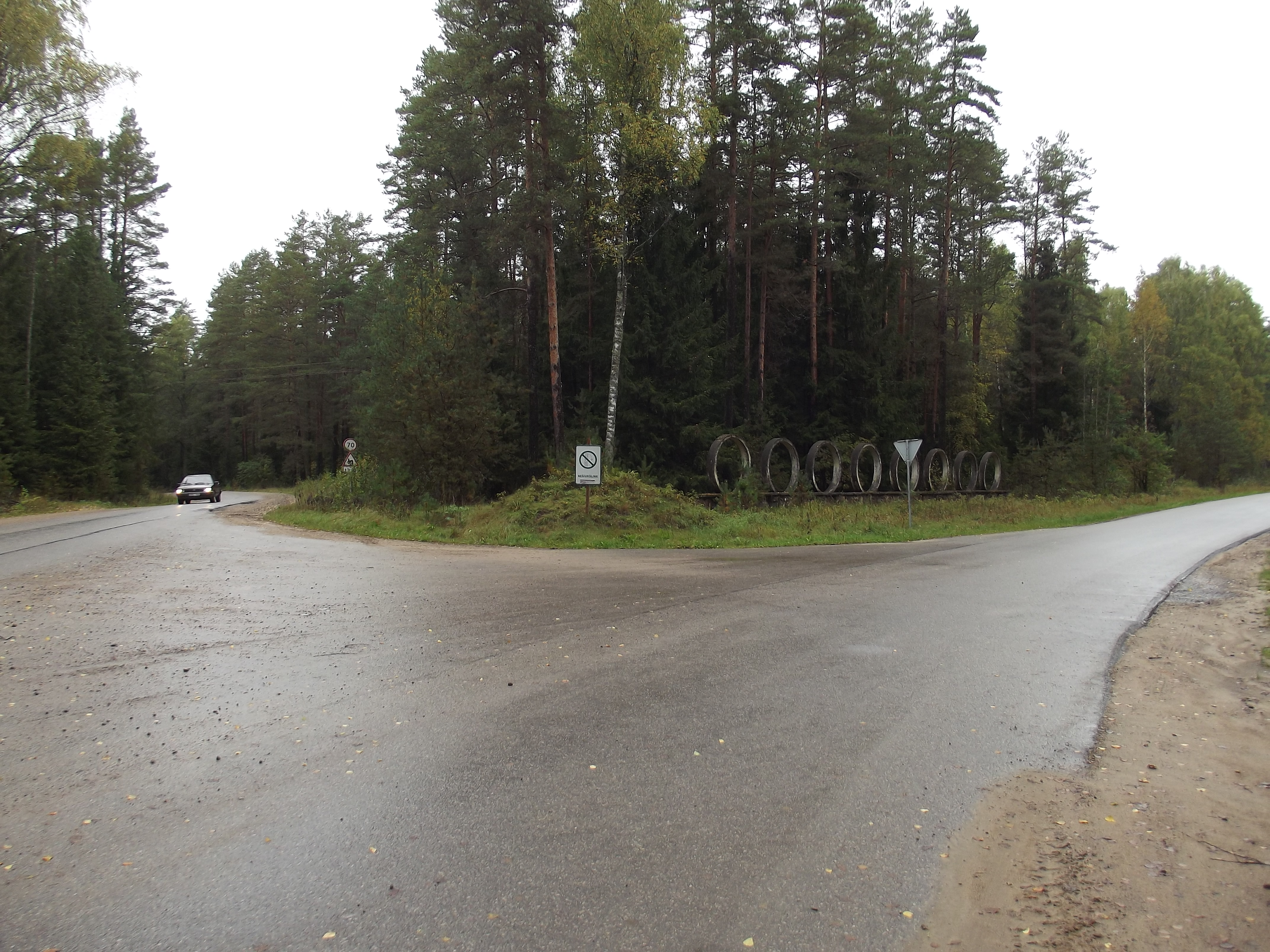 Near the military proving ground in Kazlų Rūda woods, Lithuania